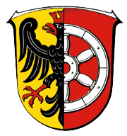 Coat of Arms of Seligenstadt